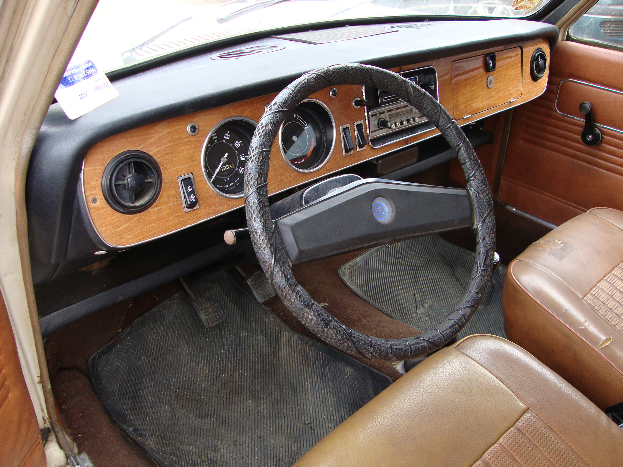 Left hand drive Austin Maxi 1750 facia 1971 model, with laquered wood teak finish.